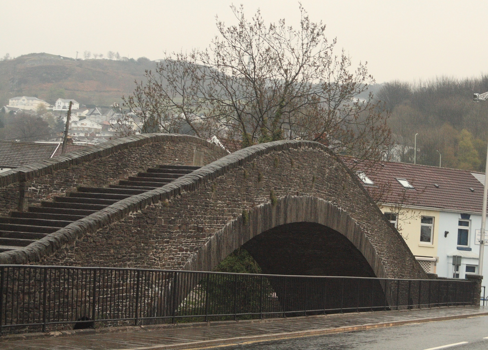 The Old Bridge, Pontypridd, Wales